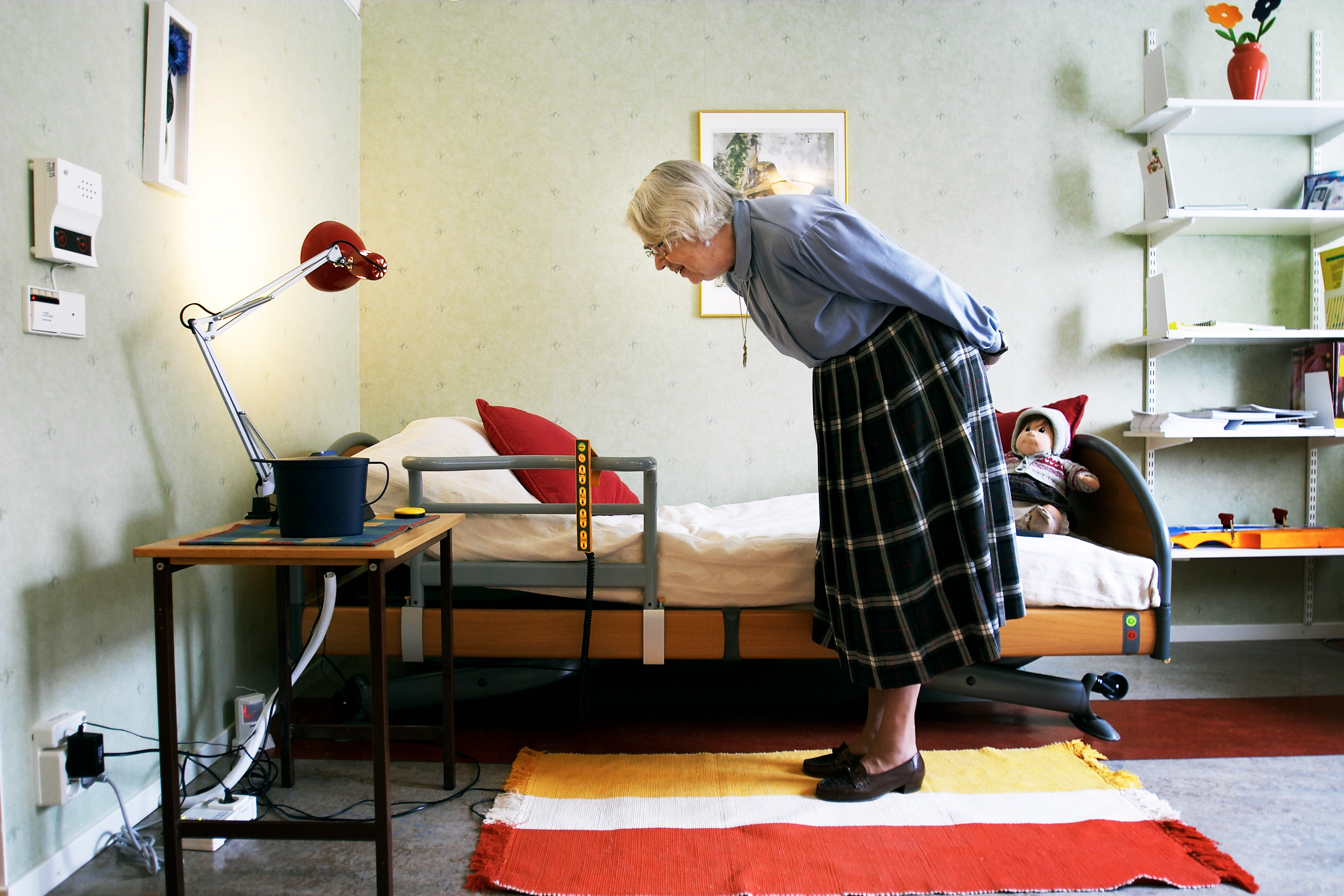 Boende Keywords: Elderly people